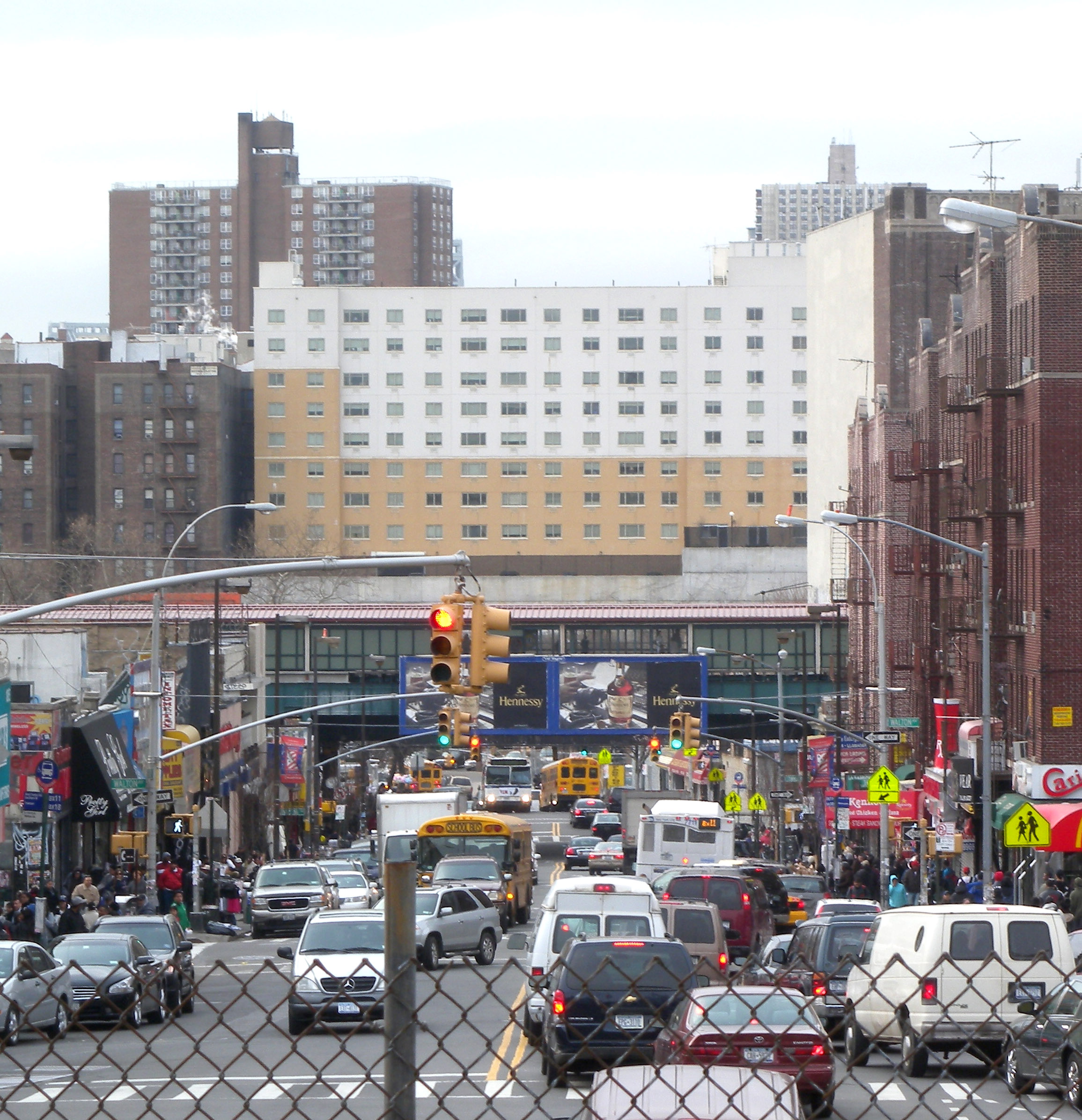 Looking west, full zoom, along 170 St from Grand Concourse at en:170th Street (IRT Jerome Avenue Line) on a cloudy afternoon.